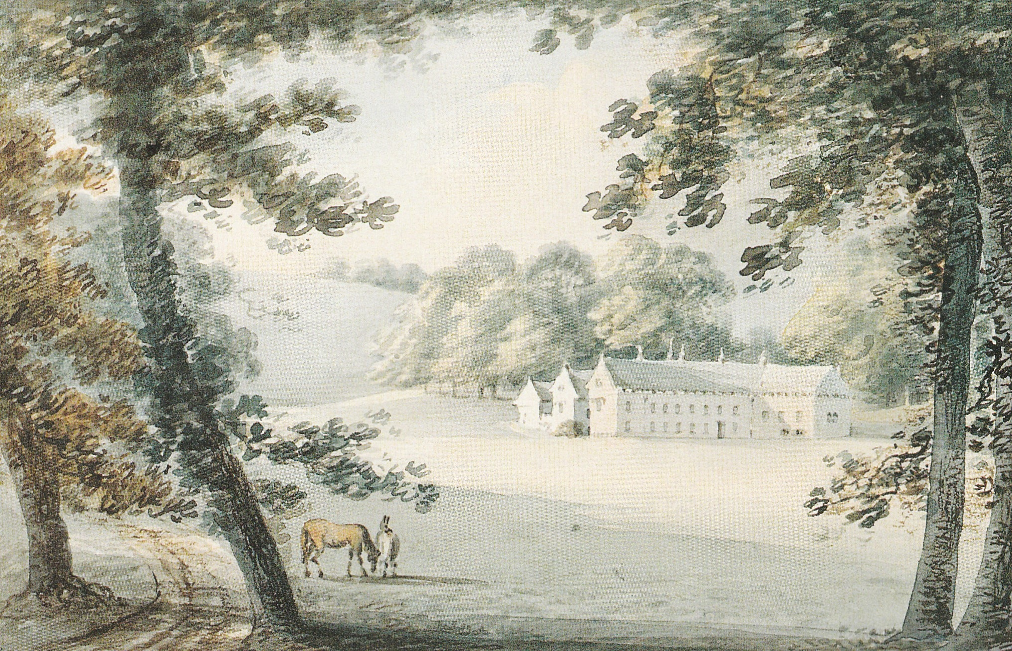 Peamore House in the parish of Exminster, Devon, watercolour dated June 1794 by Rev. John Swete (d.1821), collection of Devon Record Office, DRO 564M/F1/227